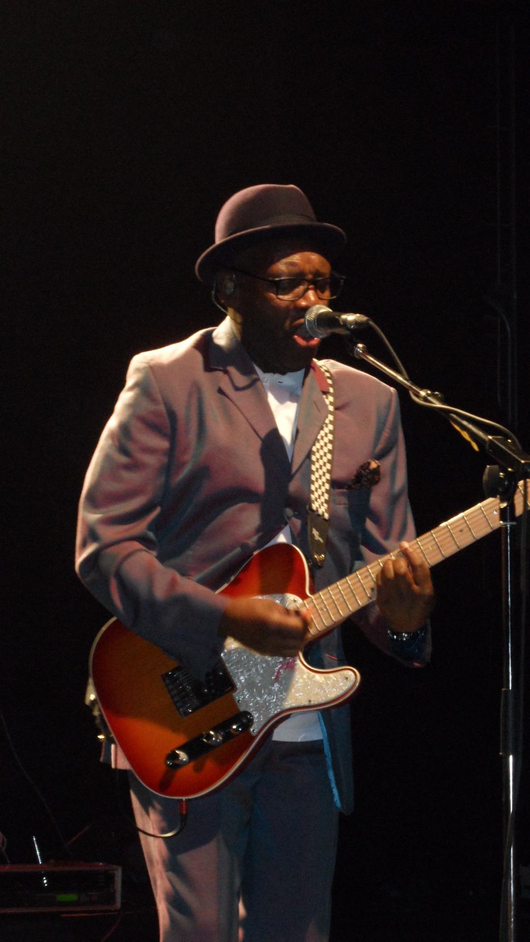 Lynval Golding performing with The Specials at the Vic Theatre in Chicago, IL March 11, 2013